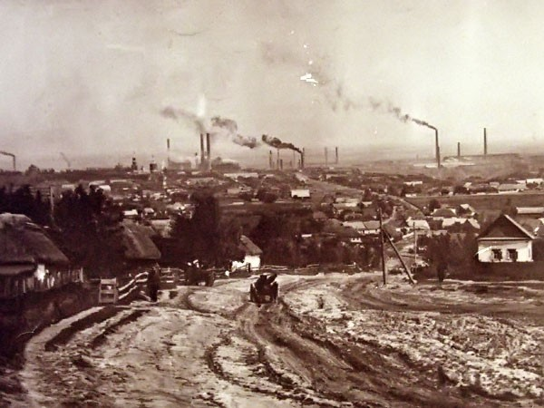 View Kamianske and Metallurgical Plant